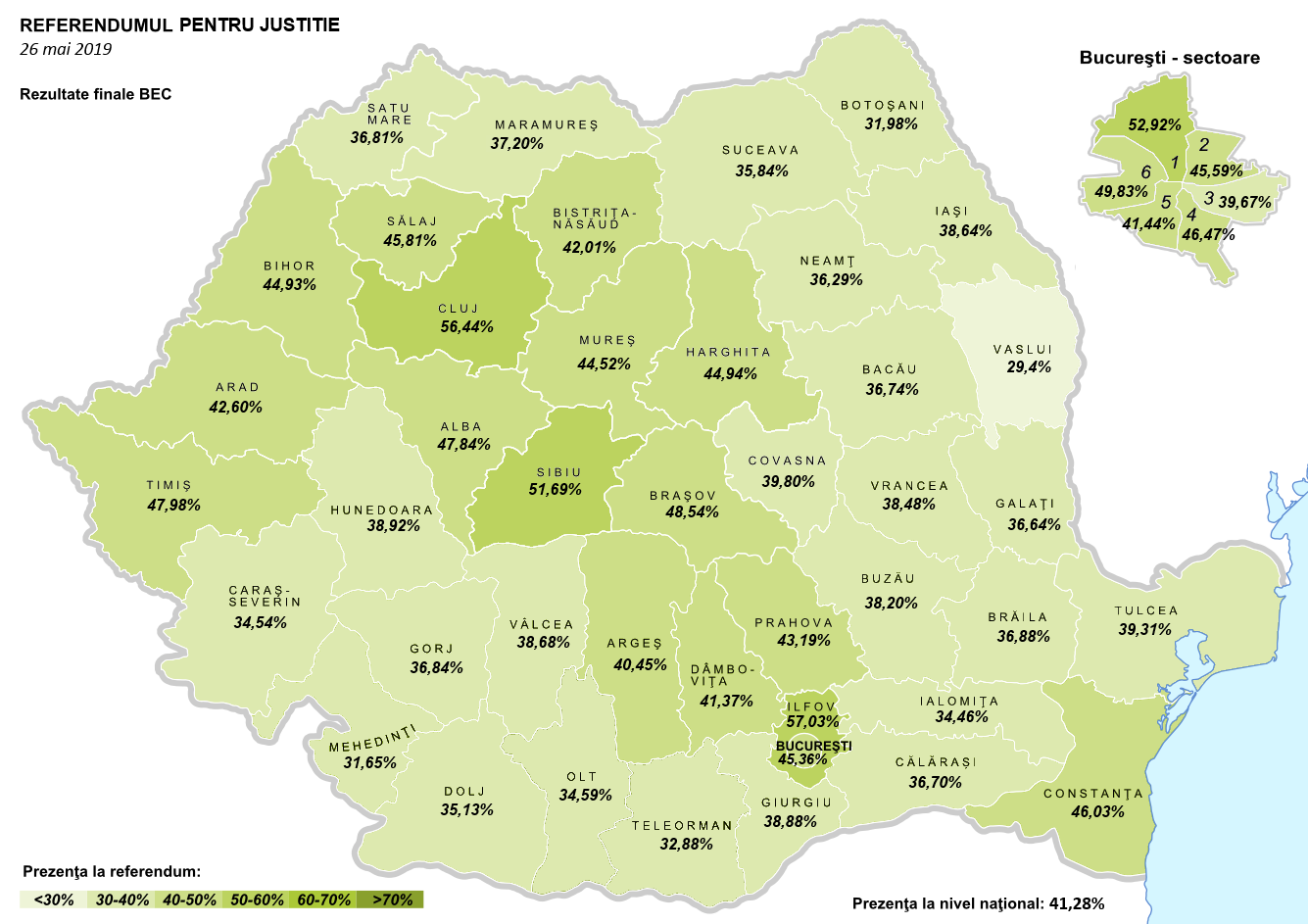 Map of the turnout for each county